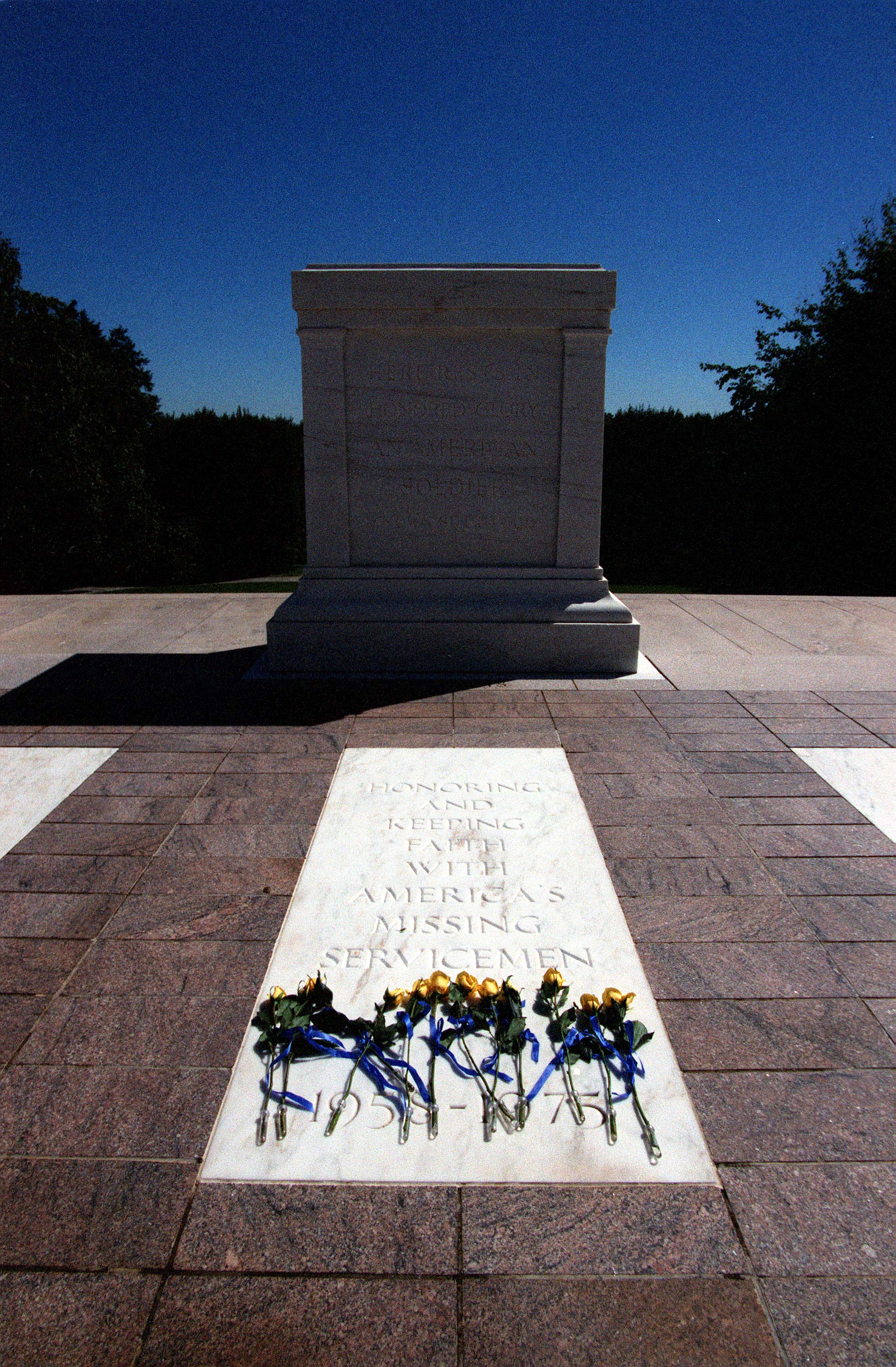 Yellow roses are placed at the base of the empty Vietnam Unknown Crypt where the inscription now reads "Honoring and Keeping Faith with America's Missing Servicemen 1958-1975". The new inscription on the crypt is being dedicated during the National Prisoner Of War/Missing In Action Recognition Day at Arlington National Cemetery, Washington, D.C. on Sept. 17, 1999. The remains formerly in the crypt were removed in May of 1998 and were later identified as Air Force 1st Lt. Michael J. Blassie through mitochrondial DNA testing.